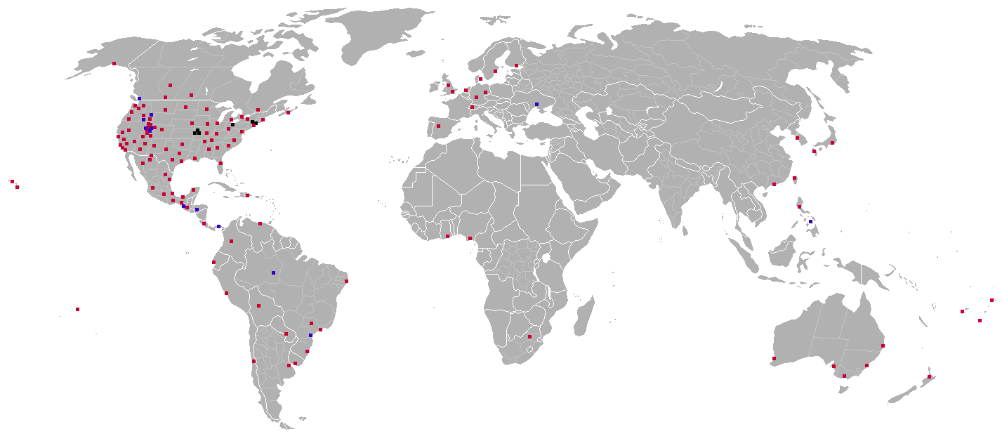 Map indicating the location of temples of The Church of Jesus Christ of Latter-day Saints: Operating temple Temple planned or under construction Former temple or proposed site for a planned temple where efforts have been suspended Accurate to 24 July 2007.